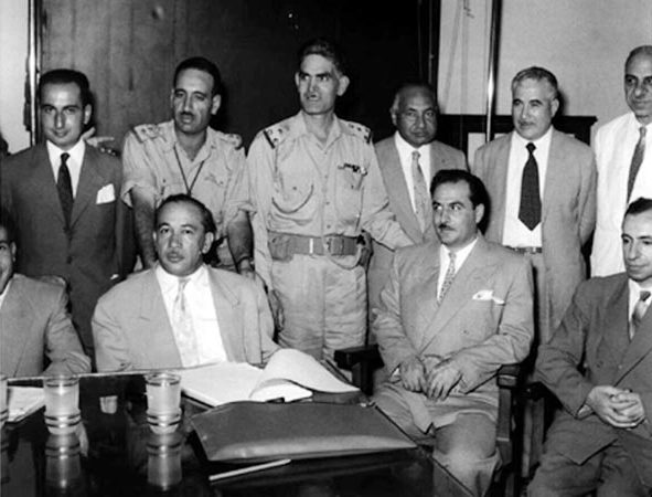 Leaders of the July 14, 1958 revolution in Iraq, including Khaled al-Naqshabendi (front row, left), Abd as-Salam Arif (back row, second from left), Abd al-Karim Qasim (back row, third from left) and Muhammad Najib ar-Ruba'i (back row, fifth from left). Also included is Michel Aflaq (front row, first from right). The person between Aflaq and Naqshbandi is possibly Baba Ali al-Barzanji (front row), the person behind Aflaq and beside ar-Rubai'i is possibly Muhammad Mahdi Kubba (back row).